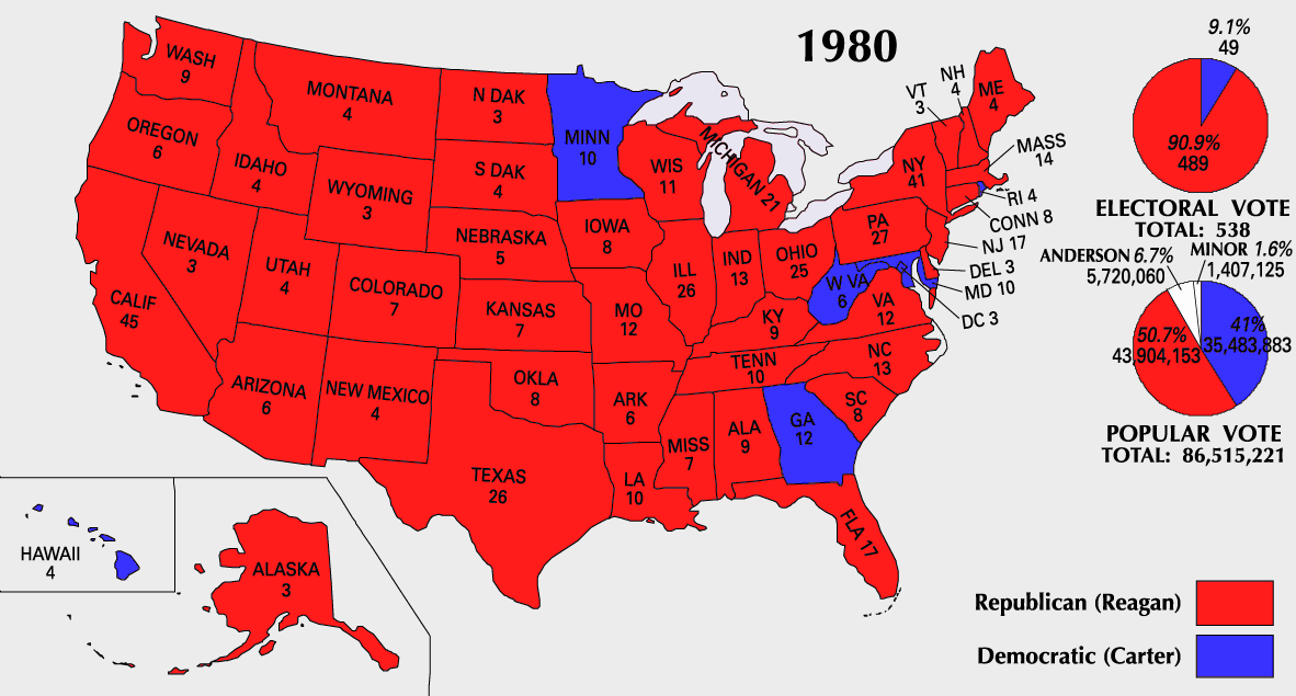 1980 Electoral College Map